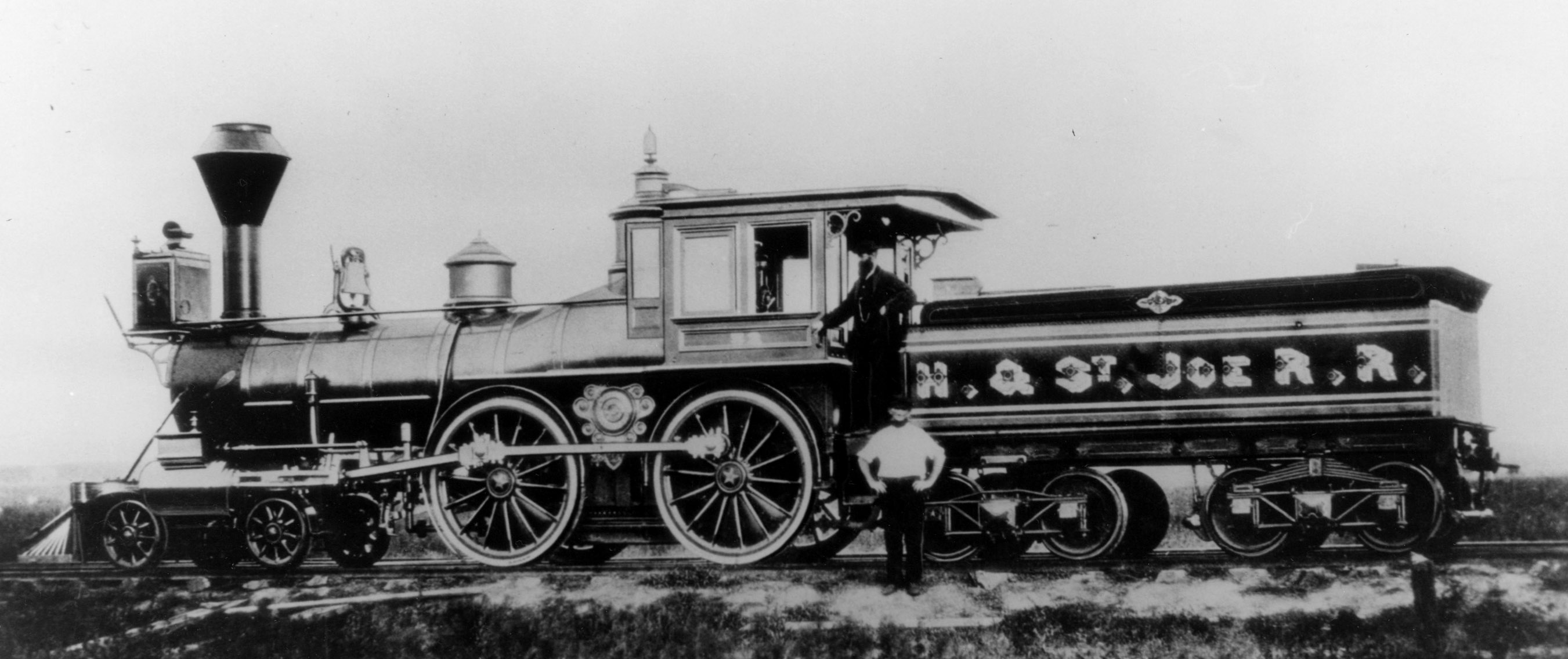 Collection Name: Historic Blue Book Collection Photographer/Studio: Unknown Description: Side view of locomotive. The Hannibal and St. Joseph Railroad was the first railroad to cross Missouri. Coverage: United States - Missouri Date: not dated Rights: Copyright is in the public domain. Credit: Courtesy of Missouri State Archives Image Number: RG005_77_26_0700 Institution: Missouri State Archives